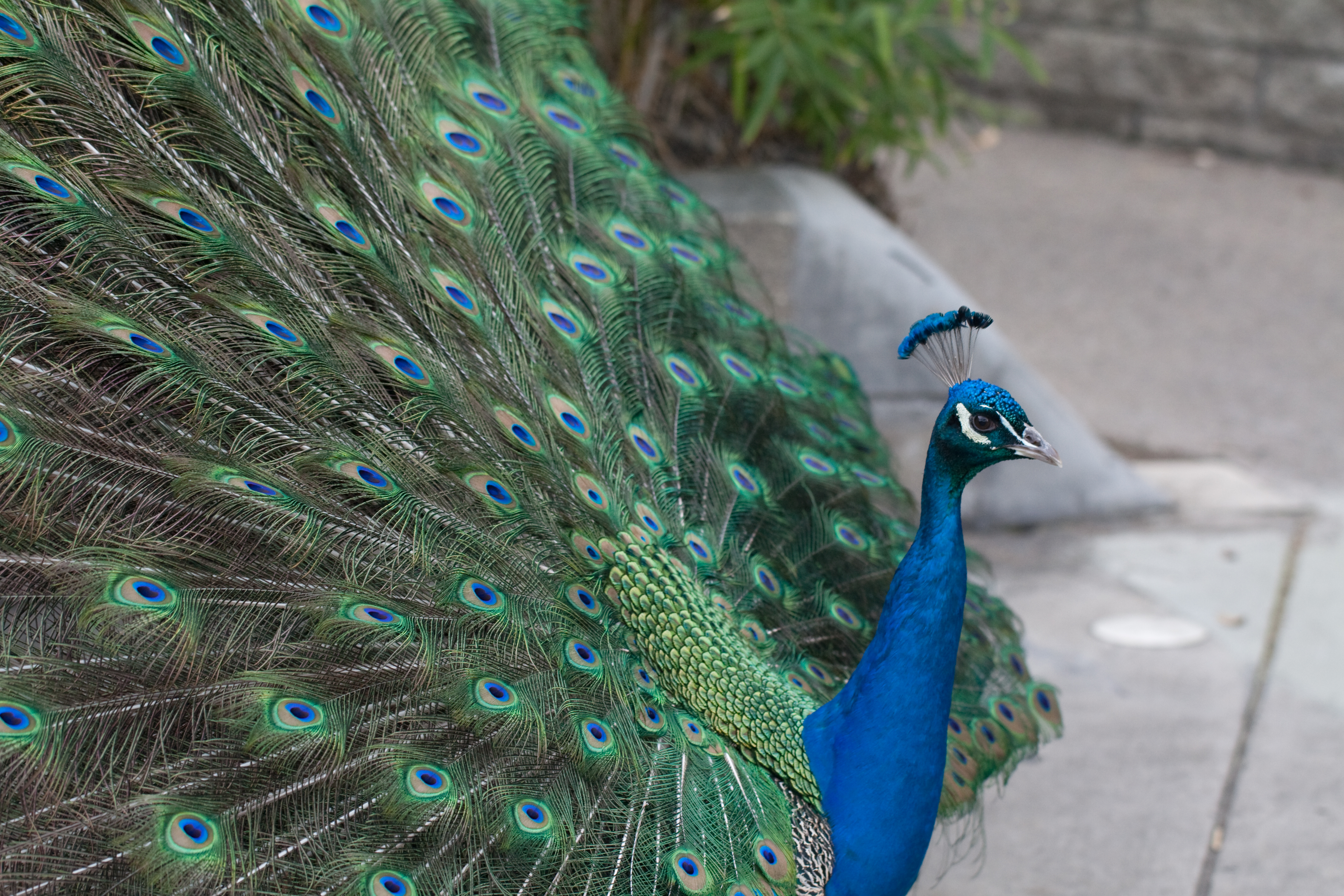 A male Indian Peafowl (also known as the Common Peafowl) at San Diego Zoo, USA.